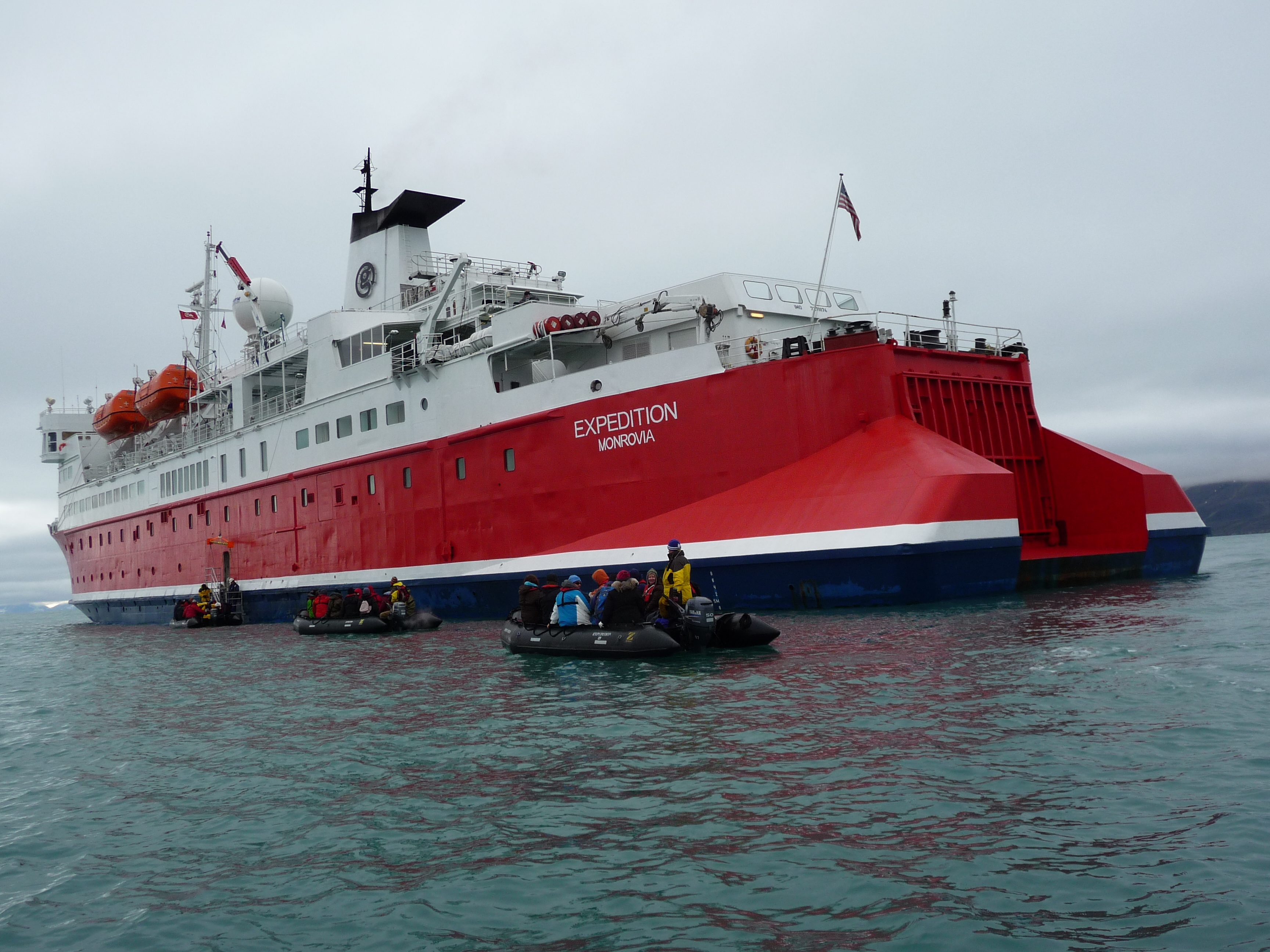 MS Expedition at Krossfjorden, Arctic in 2010, showing Zodiac deployment.